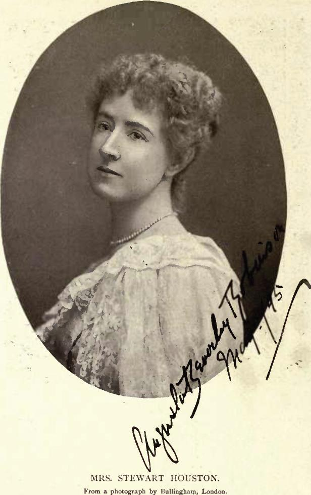 Mrs Augusta Louise Houston by Bullingham, London